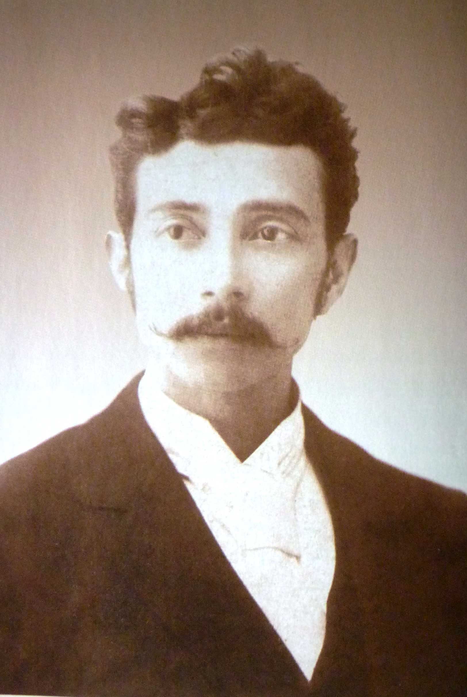 Picture of the general Regalado. How president of El Salvador.